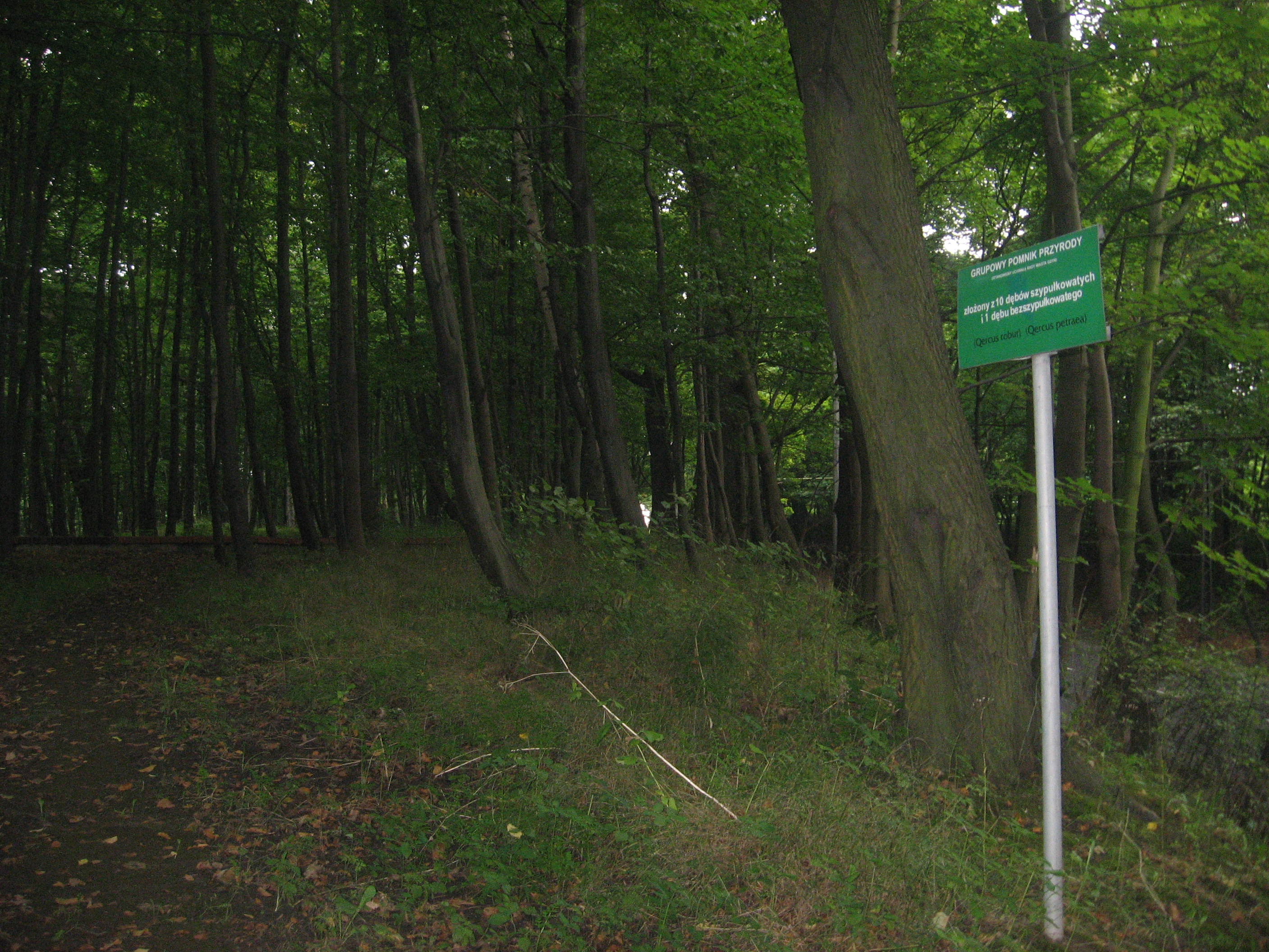 Nature monuments in Gdynia Kolibki.